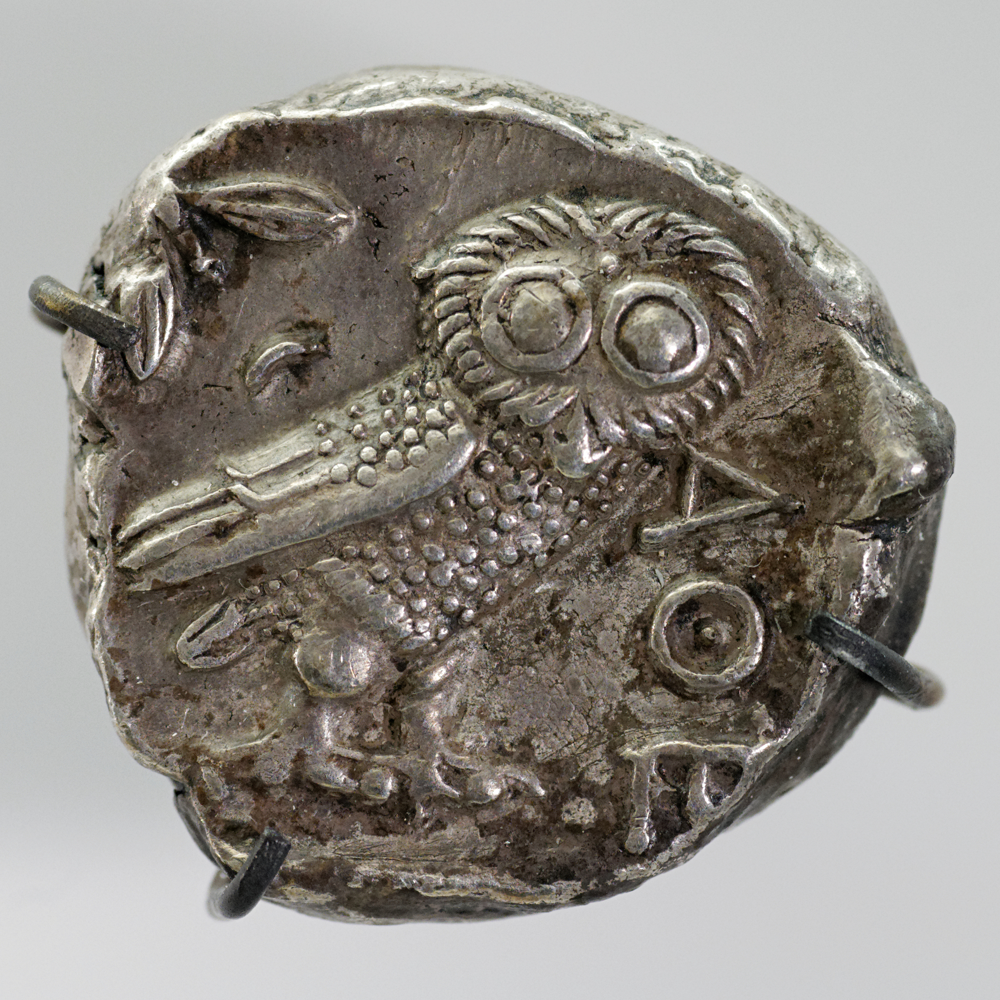 Silver tetradrachm issued by Athens, reverse: owl, olive spray and crescent moon, with the inscription ΑΘΕ.